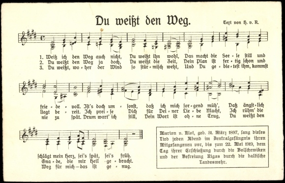 The song "Weiß ich den Weg auch nicht, Du weißt ihn wohl" of Hedwig von Redern on a post card from the year 1933